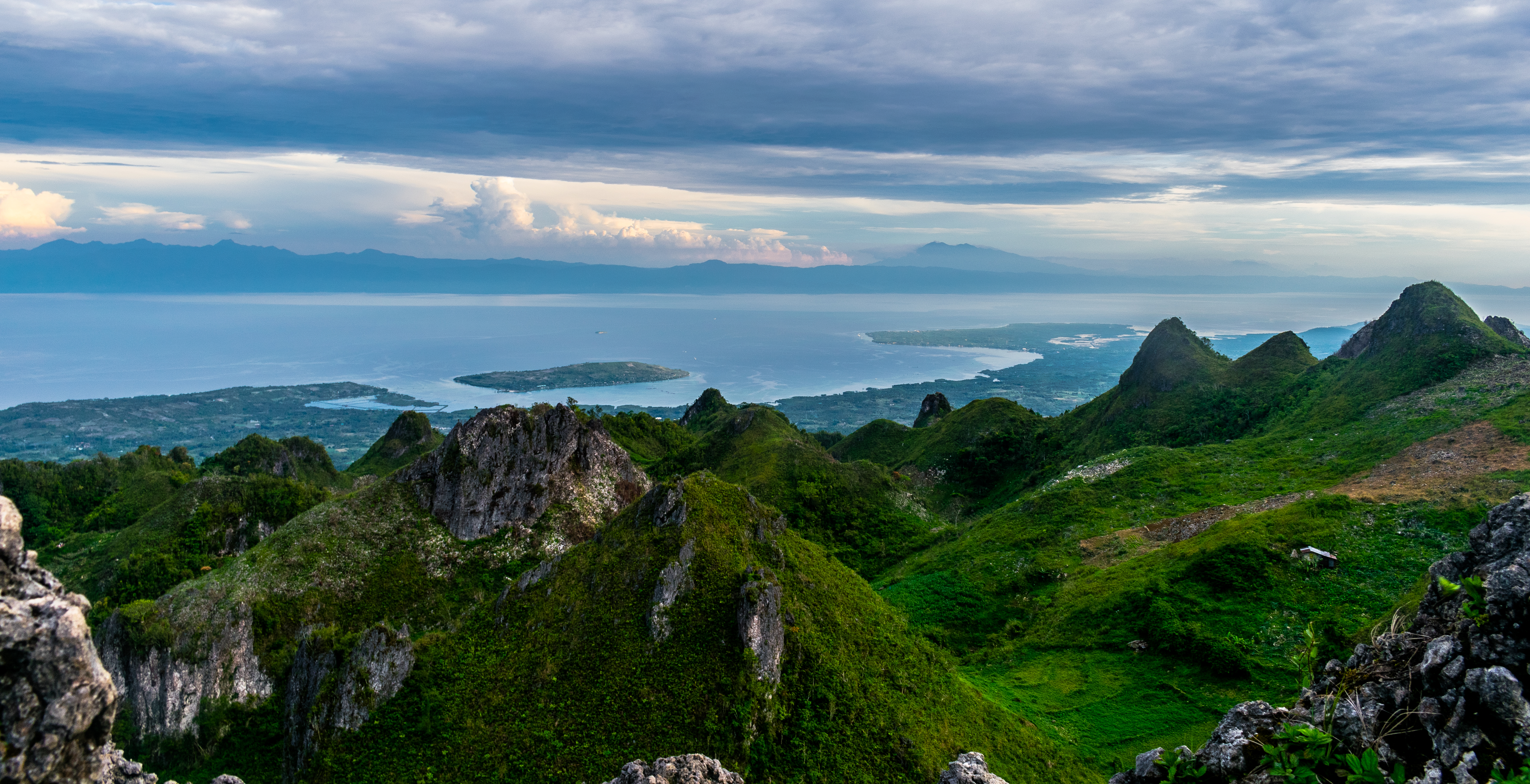 View at the top of Osmeña Peak, overlooking Tañon Strait. At the background is Mount Kanlaon, Negros Island.